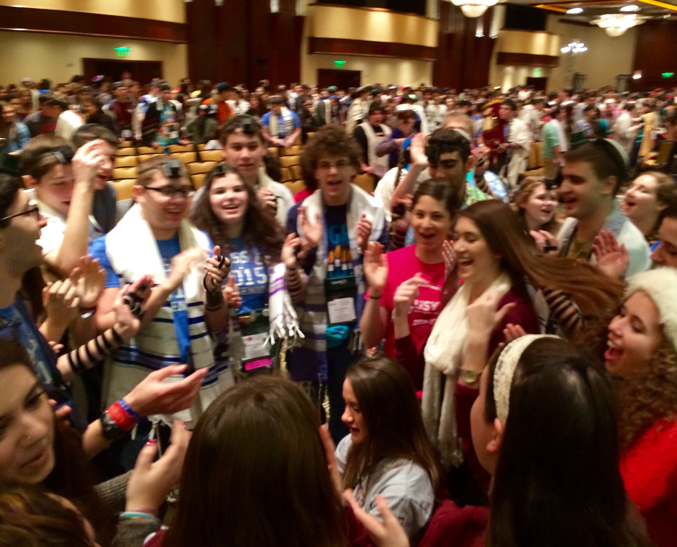 This is a picture of the Shacharit Live service at USY International Convention.jpg